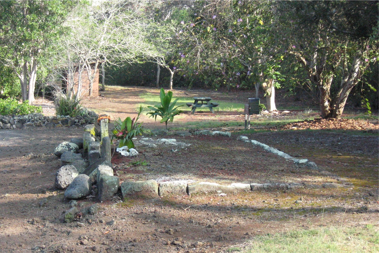 Unknown grave site at Manuka State Wayside Park — on the island of Hawai'i.